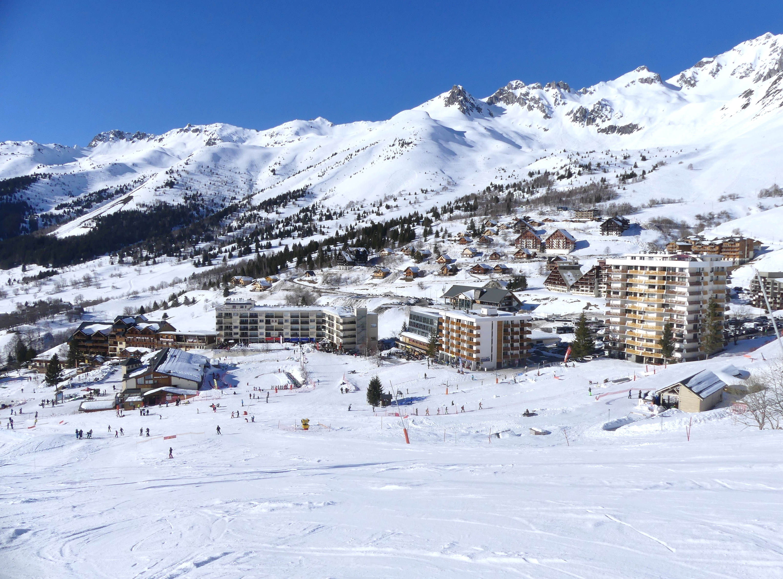 Sight, in winter from the ski slopes, of Saint-François-Longchamp 1650 village and resort (1,650 meters high), in Savoie, France.